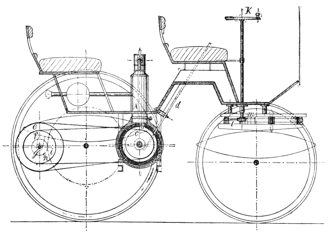 caption: "Fig. 4. Konstruktion des Straßenwagen."